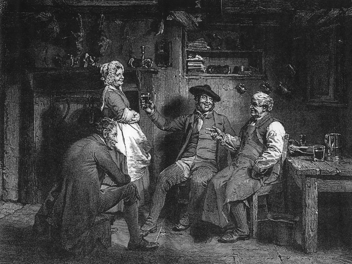 Tam o' Shanter and Souter Johnny drinking at Kirkton Jean's